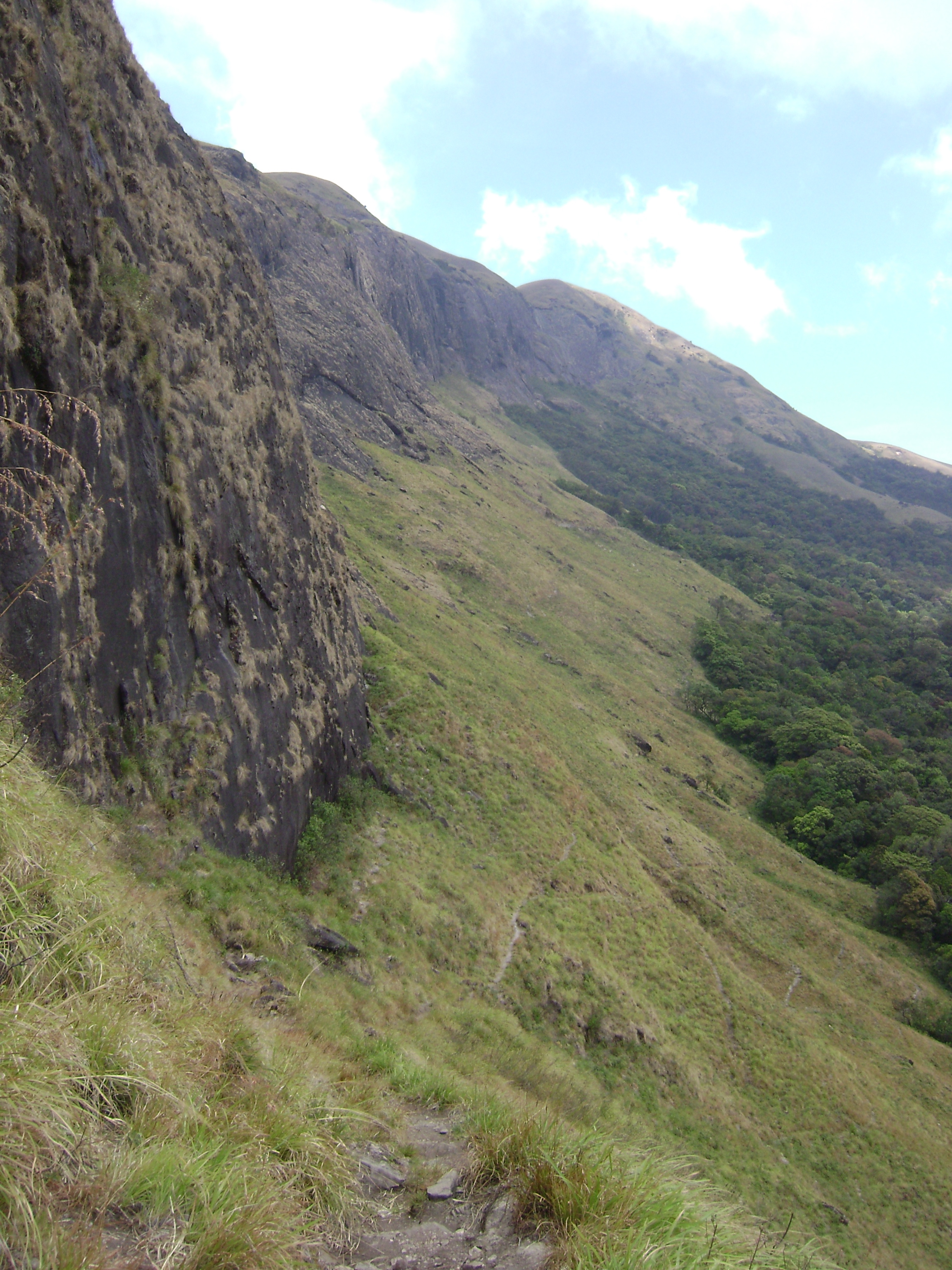 Shola, Grass and Mountain en route to Grass Hills and Konalar Hut forest rest house, Indira Gandhi Wildlife Sanctuary and National Park